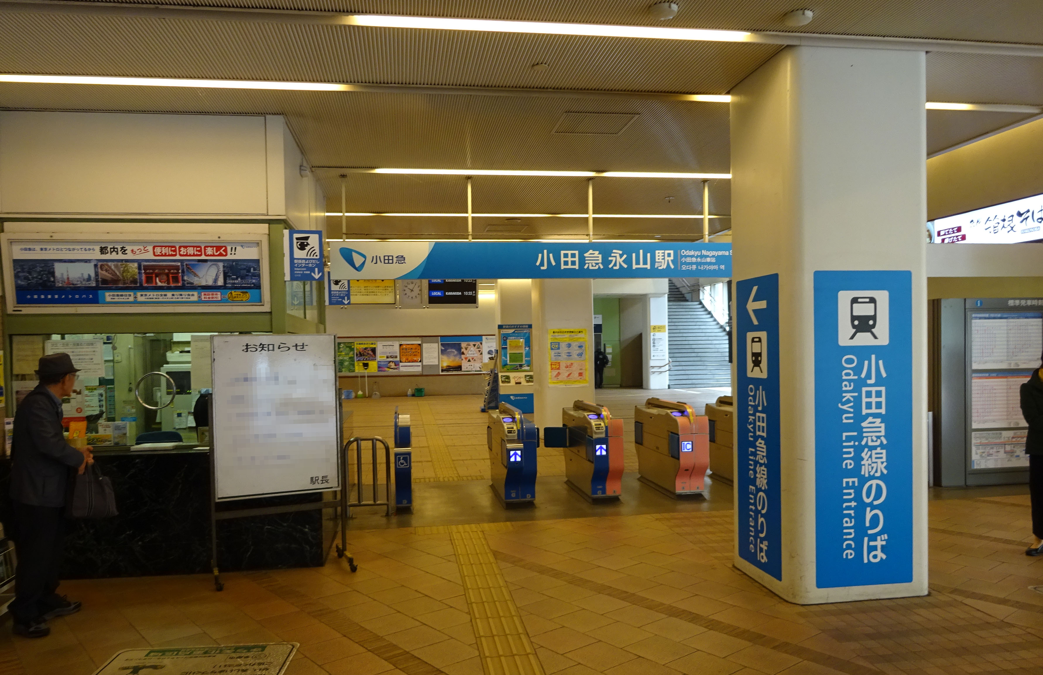 Ticket barriers of Odakyu Nagayama Station